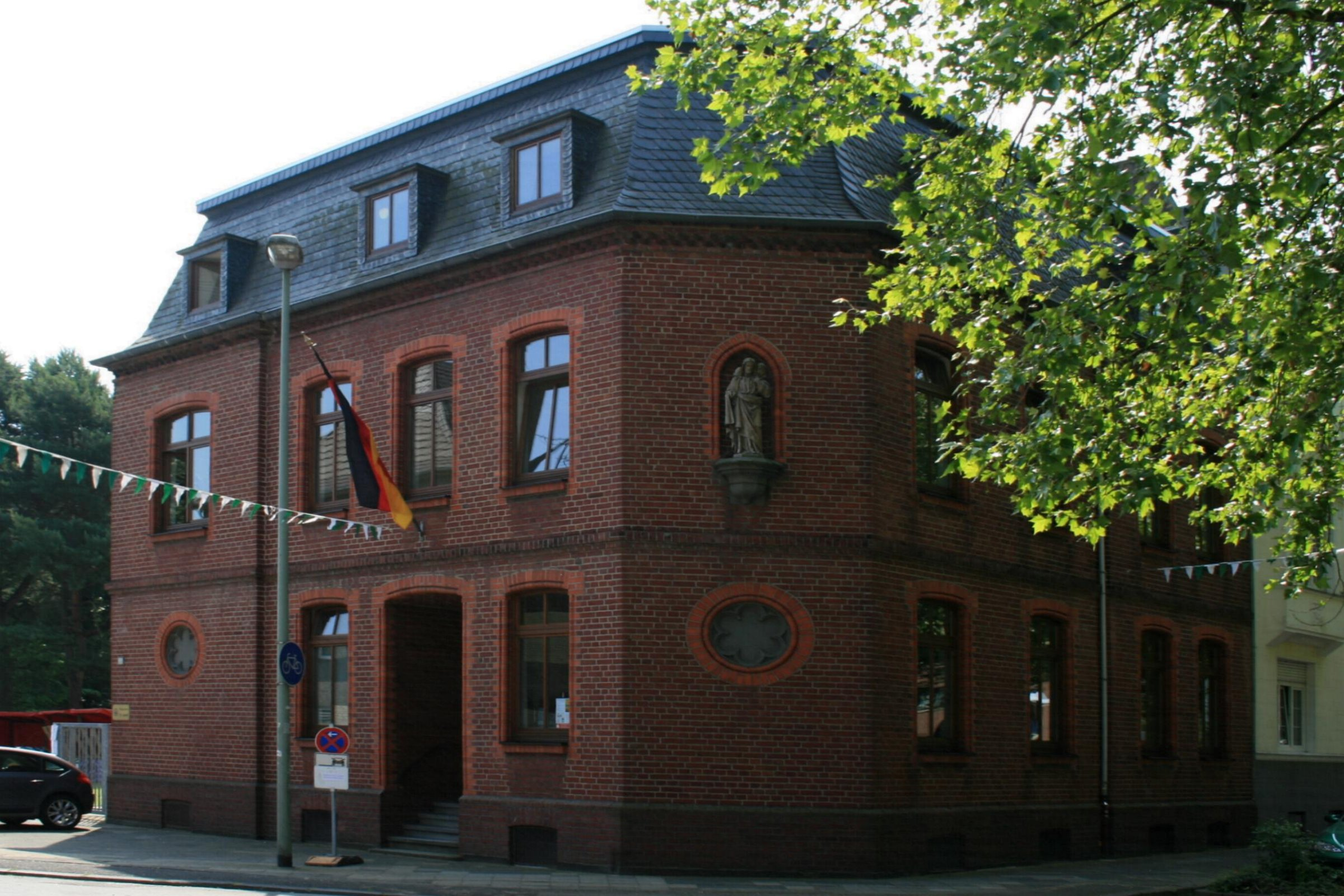 Cultural heritage monument No. R 040 in Mönchengladbach